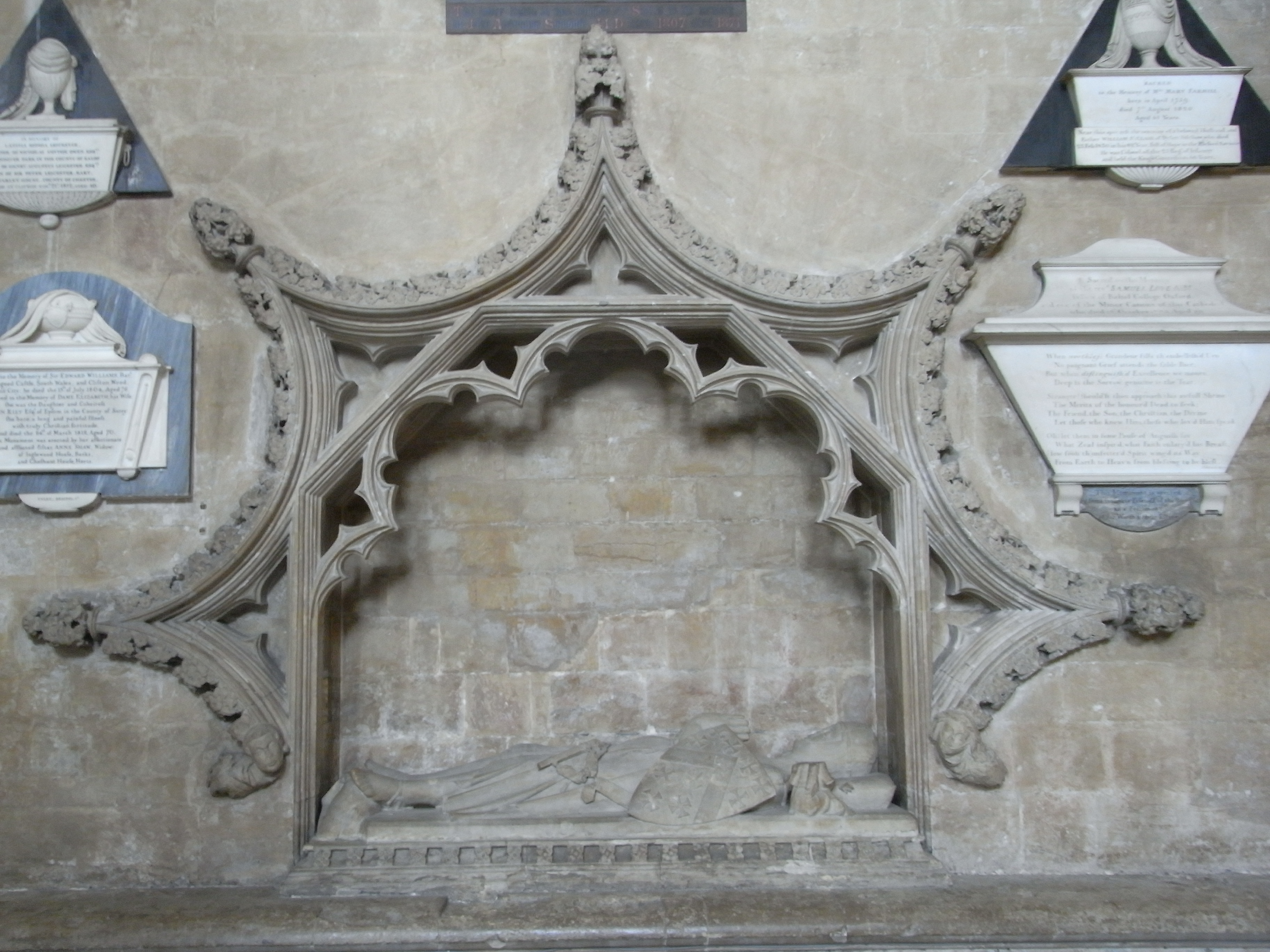 Gothic canopied tomb containing effigy of Maurice de Berkeley, 2nd Baron Berkeley(d.1326) "The Magnanimous", south aisle, St Augustine's Abbey, Bristol (Bristol Cathedral)